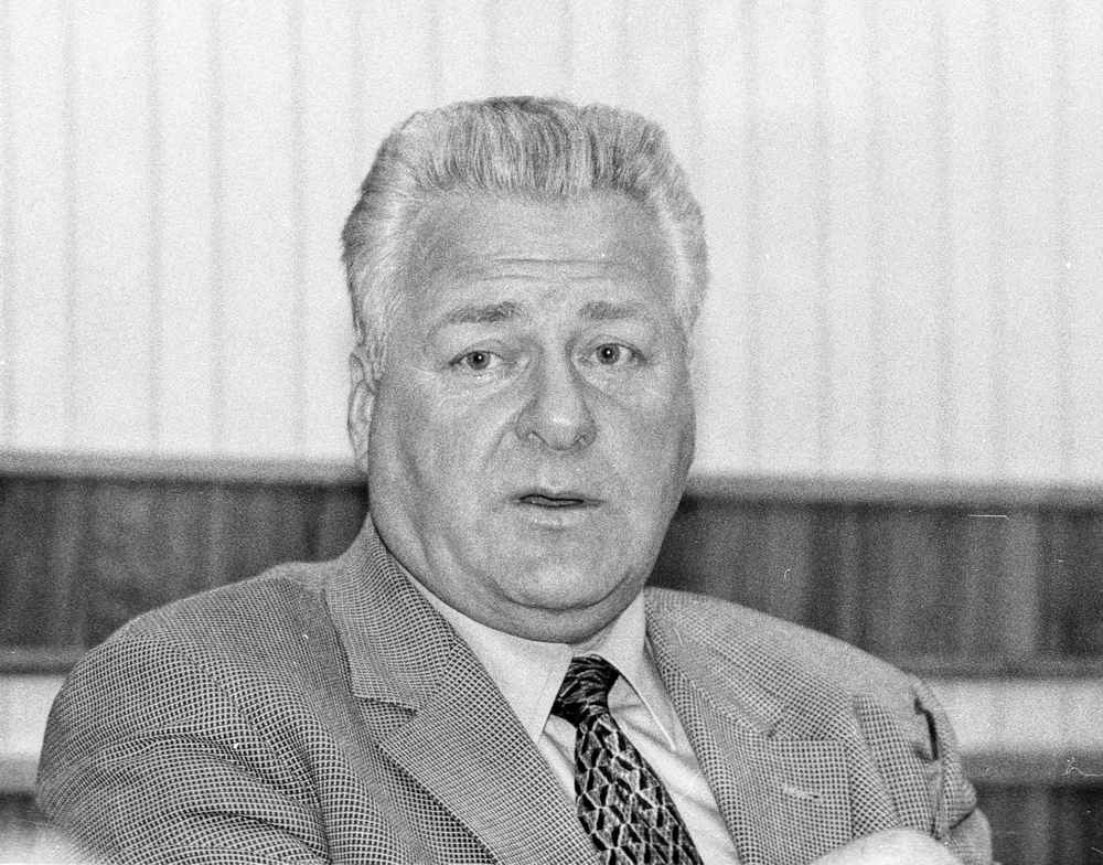 Yaroslavl Governor Anatoly Lisitsyn.